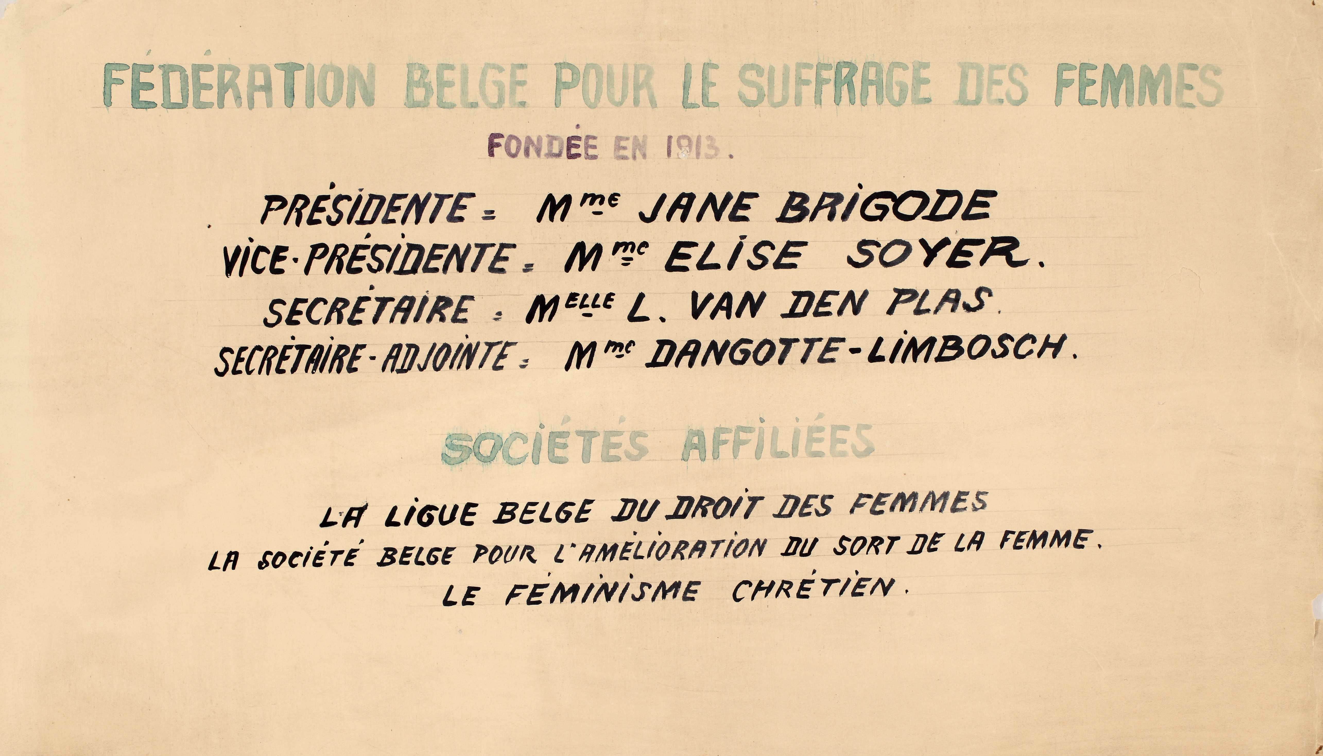 List of the members to the Belgian Federation for Women's suffrage